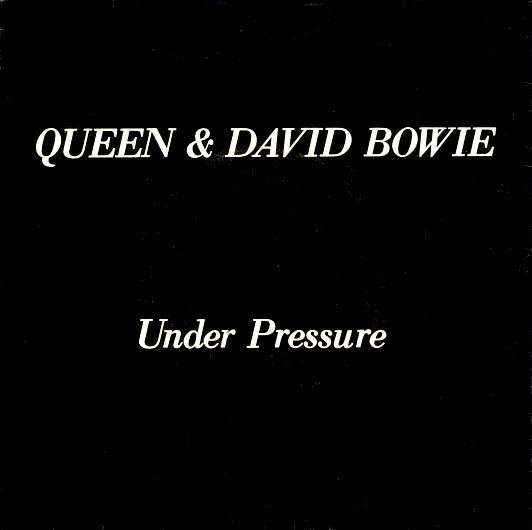 Front sleeve of the Elektra Records pressing of "Under Pressure" by Queen and David Bowie; released in the United States, Canada, and Australasia